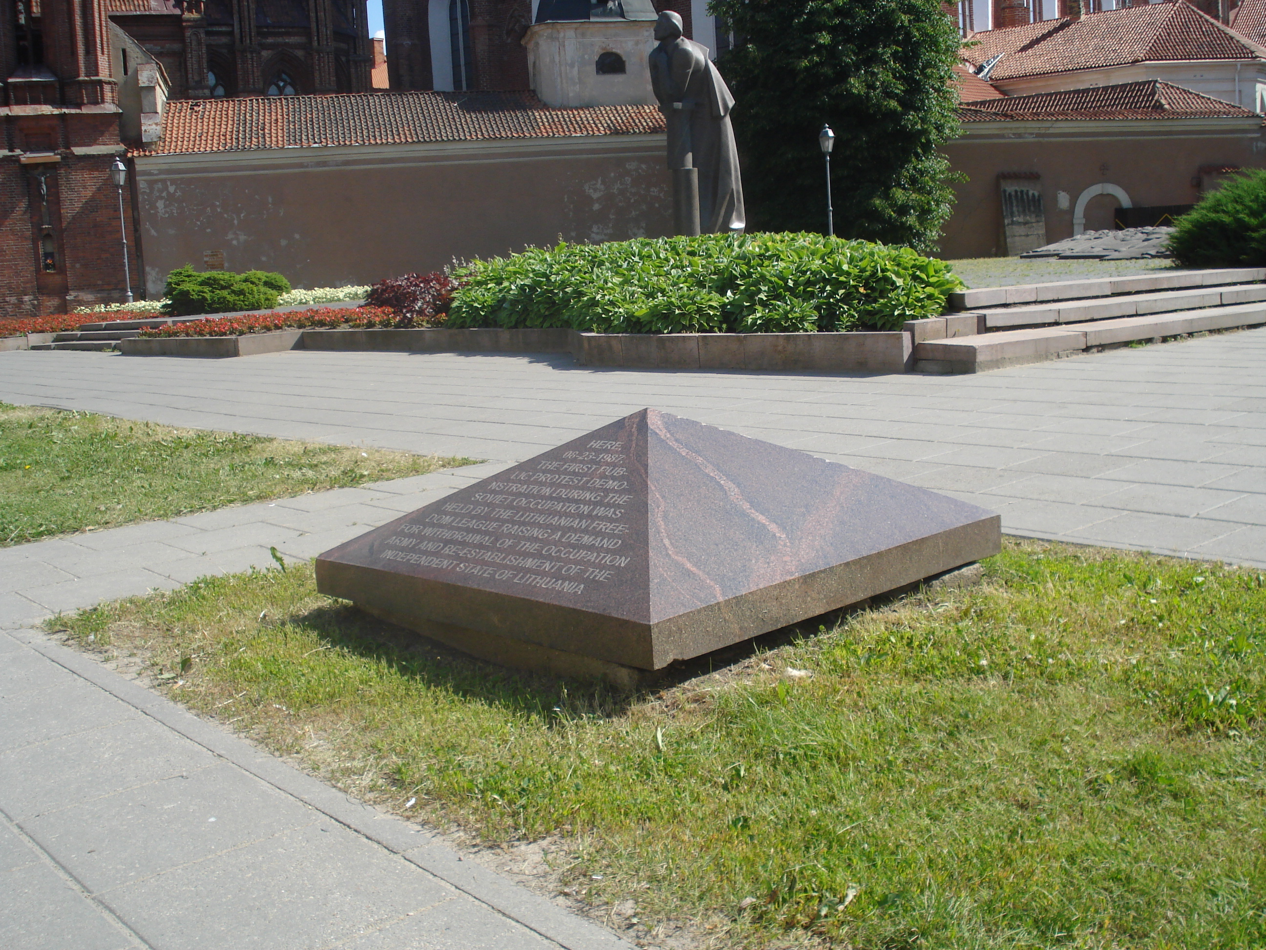 Commemorative stone in memory of first public protest demonstration 23 august 1987 near Adam Mickiewicz monument (Maironio street, Vilnius)